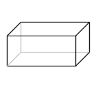 Geometrisk figur: Rätblock Gjord av Användare:Anp. PD; se Användare:Habj/Upphovsrätt samt diskussionssidan This image of simple geometry is ineligible for copyright and therefore in the public domain, because it consists entirely of information that is common property and contains no original authorship.